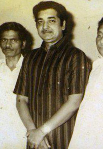 Indian actor Prem Nazir